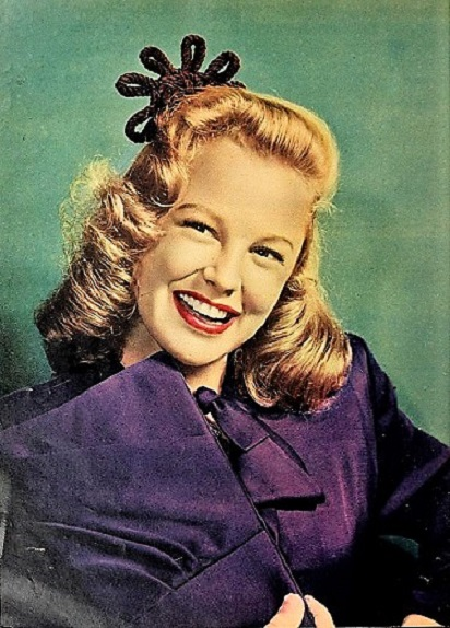 June Allyson